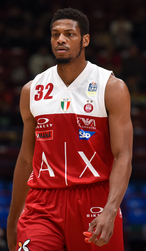 Foto a cura di Claudio Degaspari